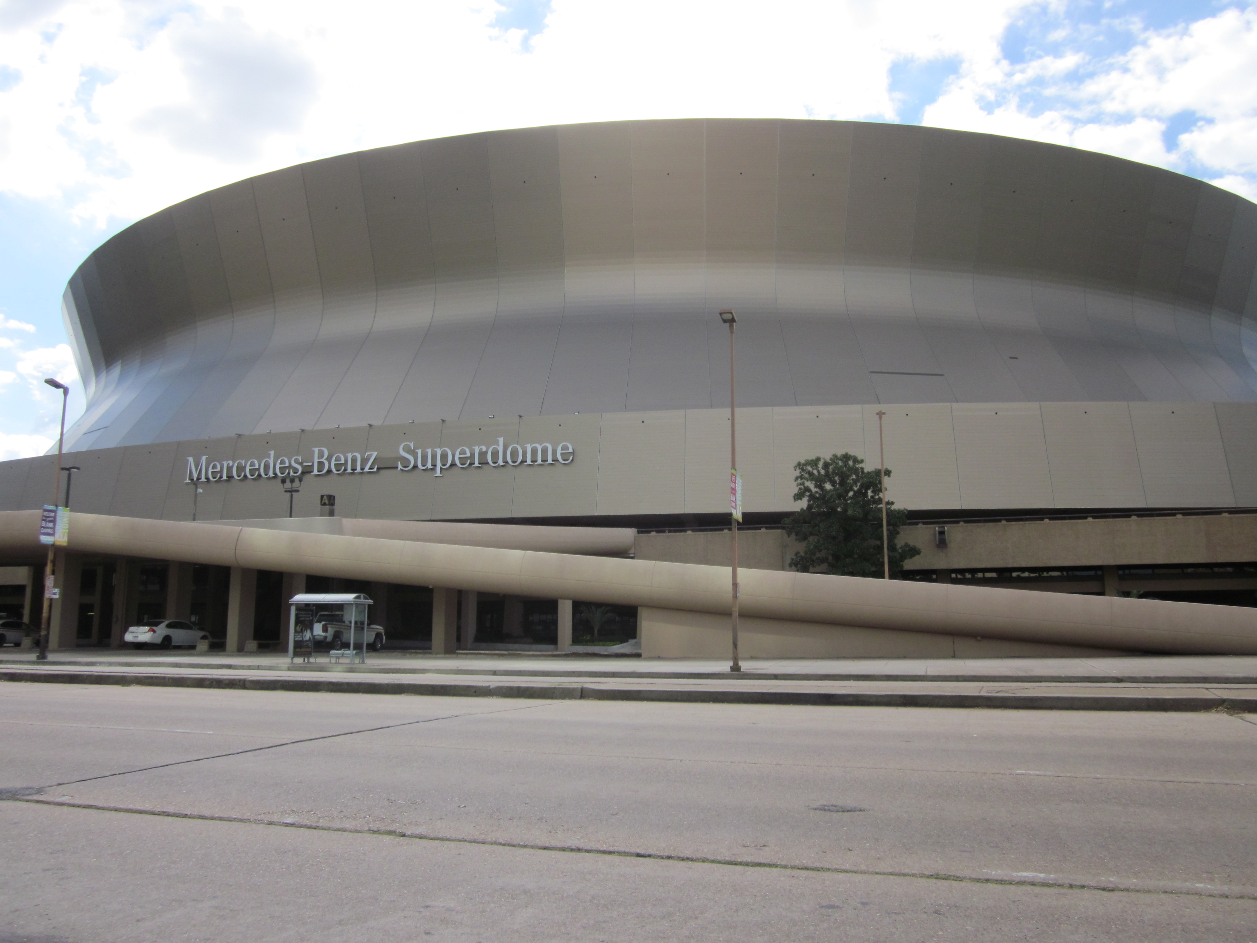 New Orleans. The Superdome new marketing sponsorship name "Mercedes Benz Superdome" just put on the sides of the buidling. Poydras Street side.